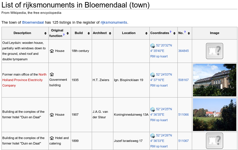 Example of easy upload buttons for monuments, in the English Wikipedia.